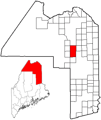 Adapted from U.S. Census Bureau maps (American FactFinder) and Wikipedia's ME county maps by Bumm13.